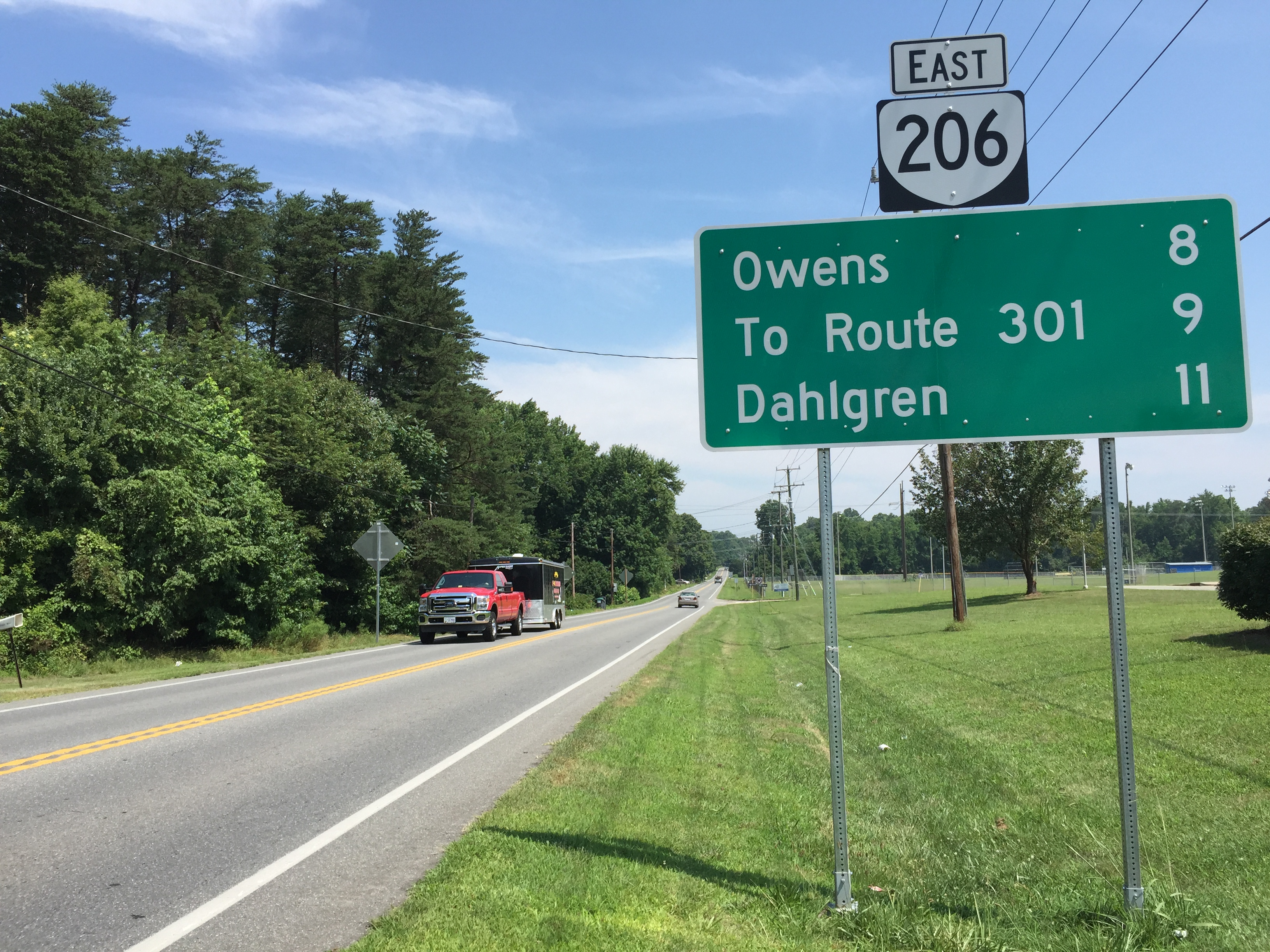 View east along Virginia State Route 206 (Dahlgren Road) just east of Virginia State Route 3 (Kings Highway) in Arnolds Corner, King George County, Virginia